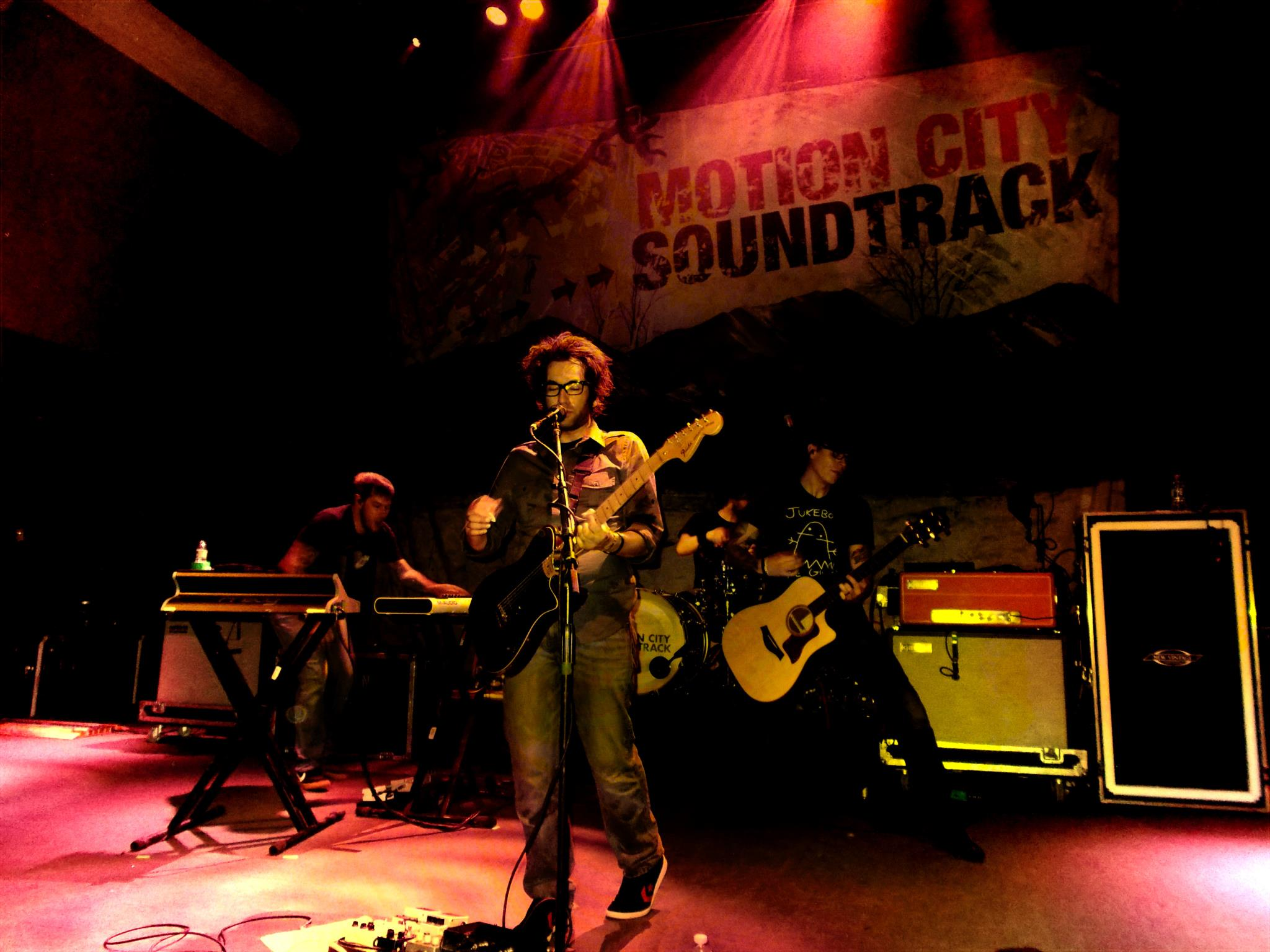 Motion City Soundtrack performs at the 9:30 in Washington, DC in November 2012.